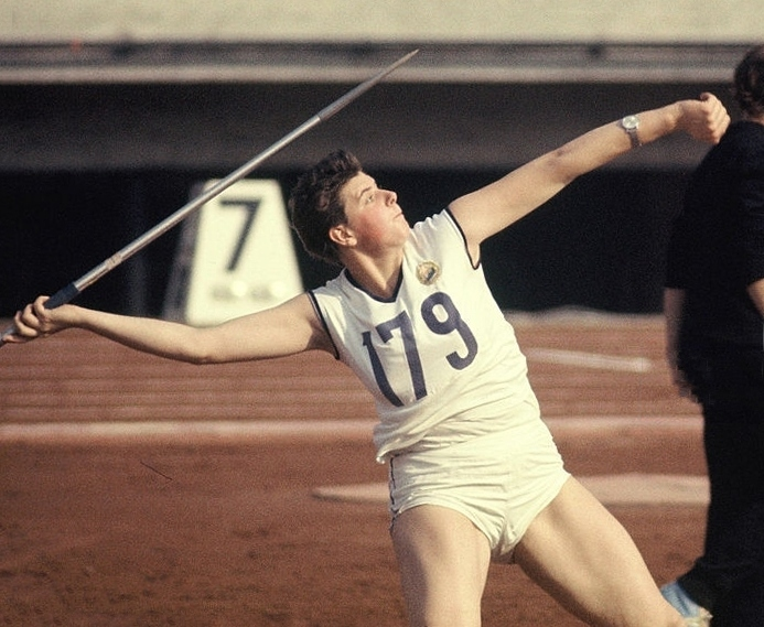 Mihaela Peneș, 1964 Olympics